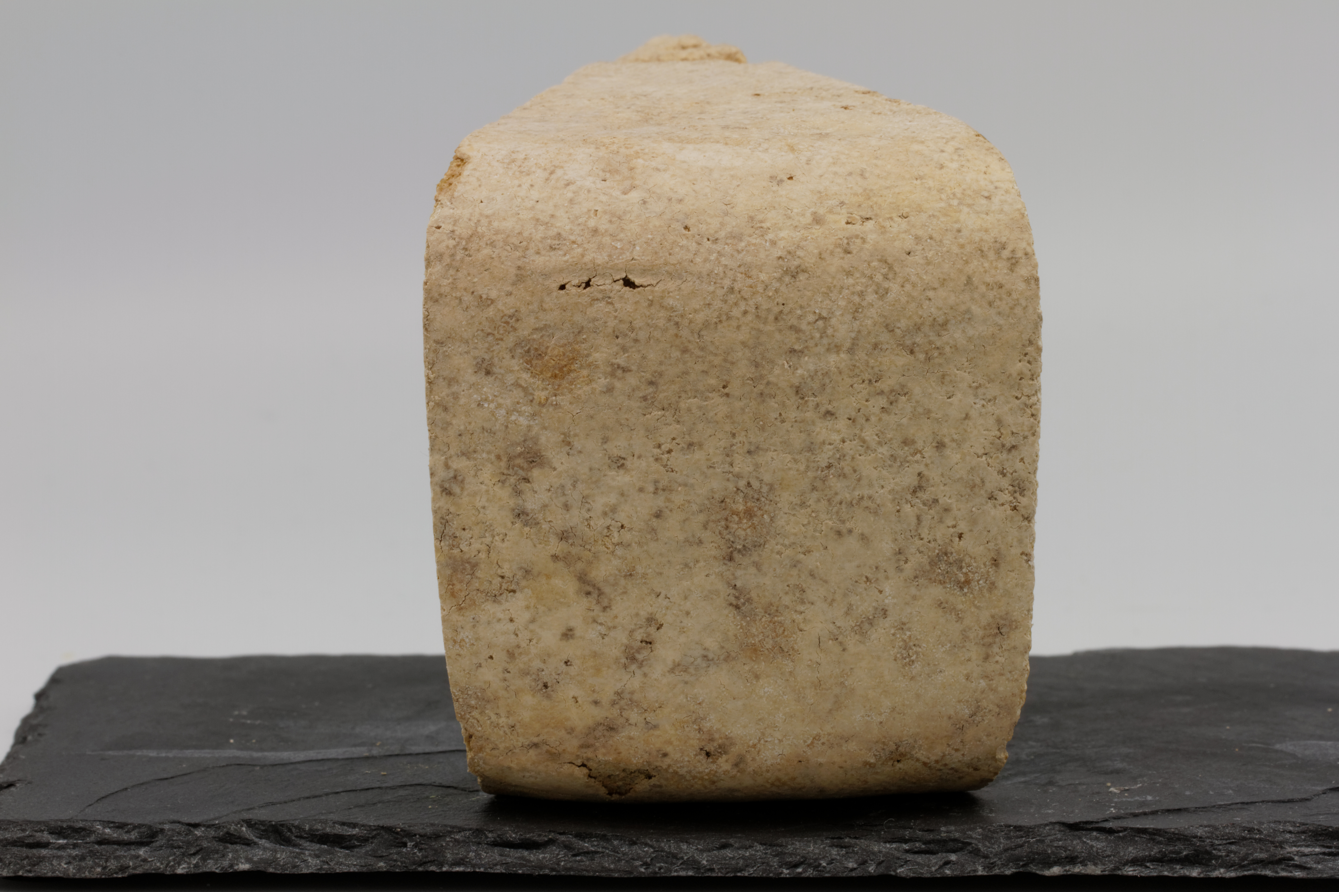 Ossau-iraty